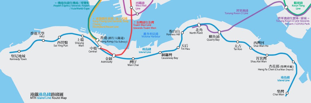 港鐵港島綫及西港島綫路線圖（按真實地形繪畫） Geographically accurate map of the MTR Island Line and West Island Line By Bus_28a, Mtrkwt